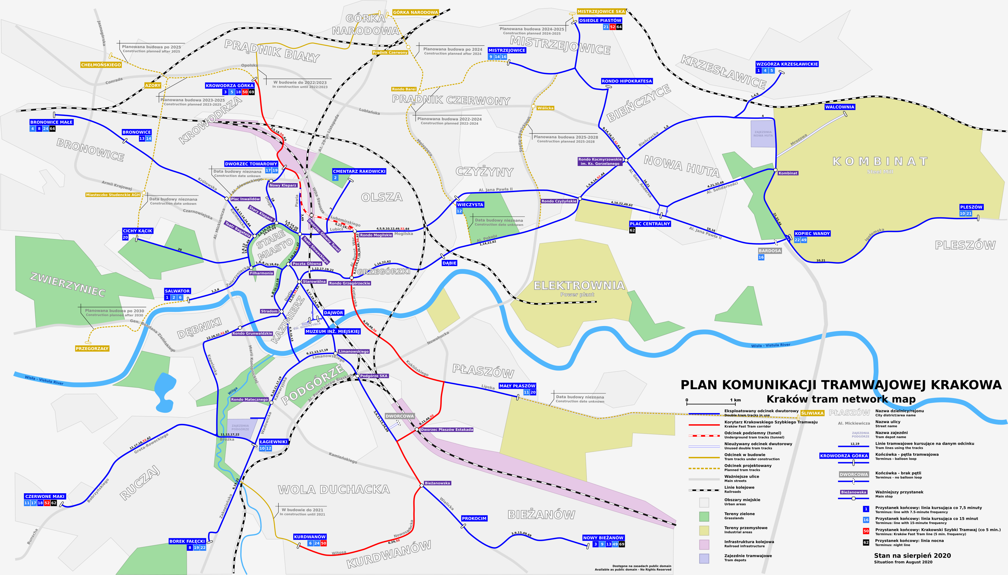 A map of Kraków tram network (September 2009). This is a PNG version uploaded due to the rsvn problems with text handling. The editable SVG version (Inkscape) can be found here: File:Krakow tram network.svg